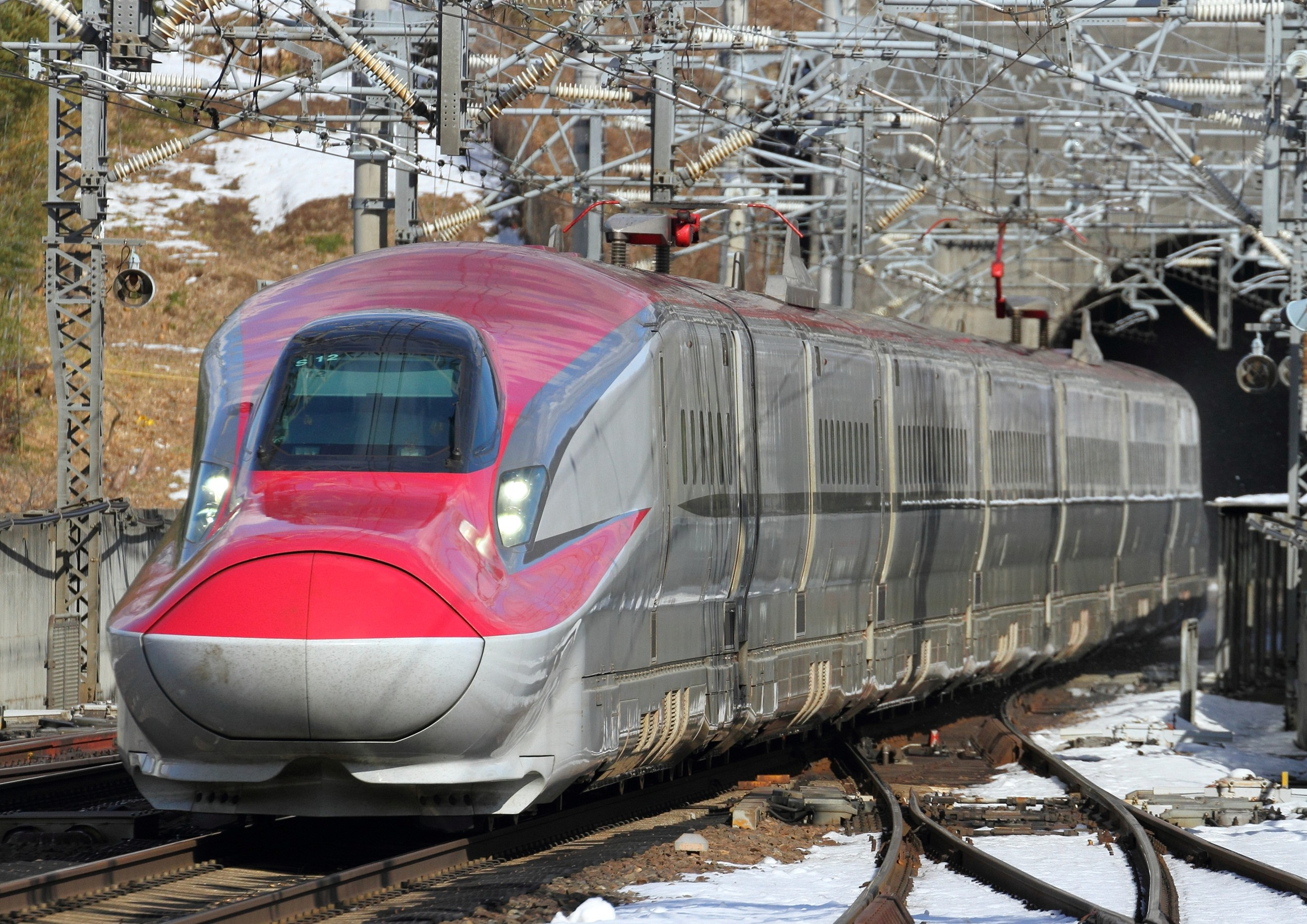 JR East E6 series shinkansen pre-production set S12 on a test run approaching Shiroishi-Zao Station on the Tohoku Shinkansen